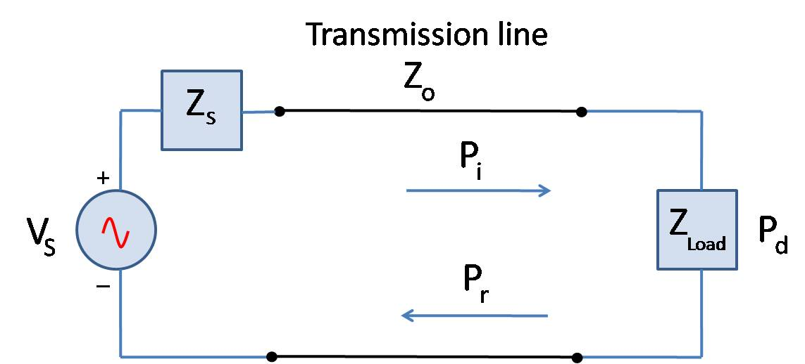 Diagram depicting a transmission line of characteristic impedance Z0 terminated in a load impedance of ZL. When Z0 is not equal to ZL not all the incident power from the transmission line (Pi) will be delivered to the load (Pd). A portion of the power (Pr) is reflected back up the line towards the source.